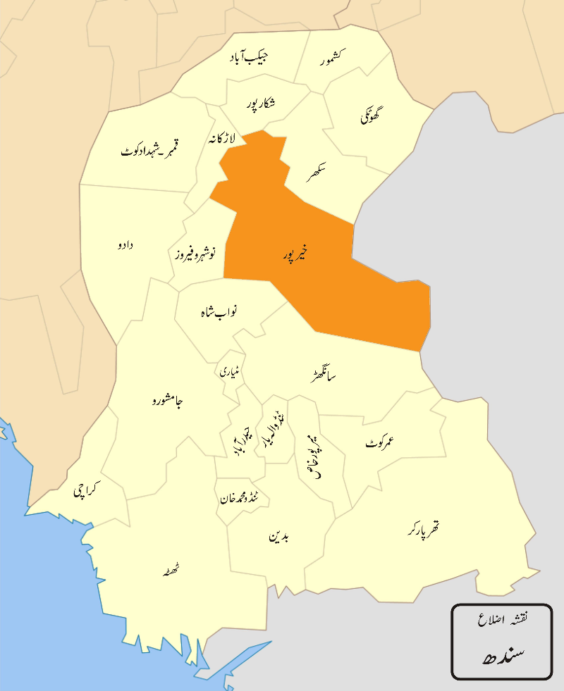 Khairpur District, Sindh